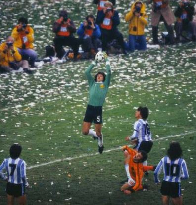 Argentina goalkeeper Fillol catching the ball in the final match v. Netherlands, FIFA World Cup.